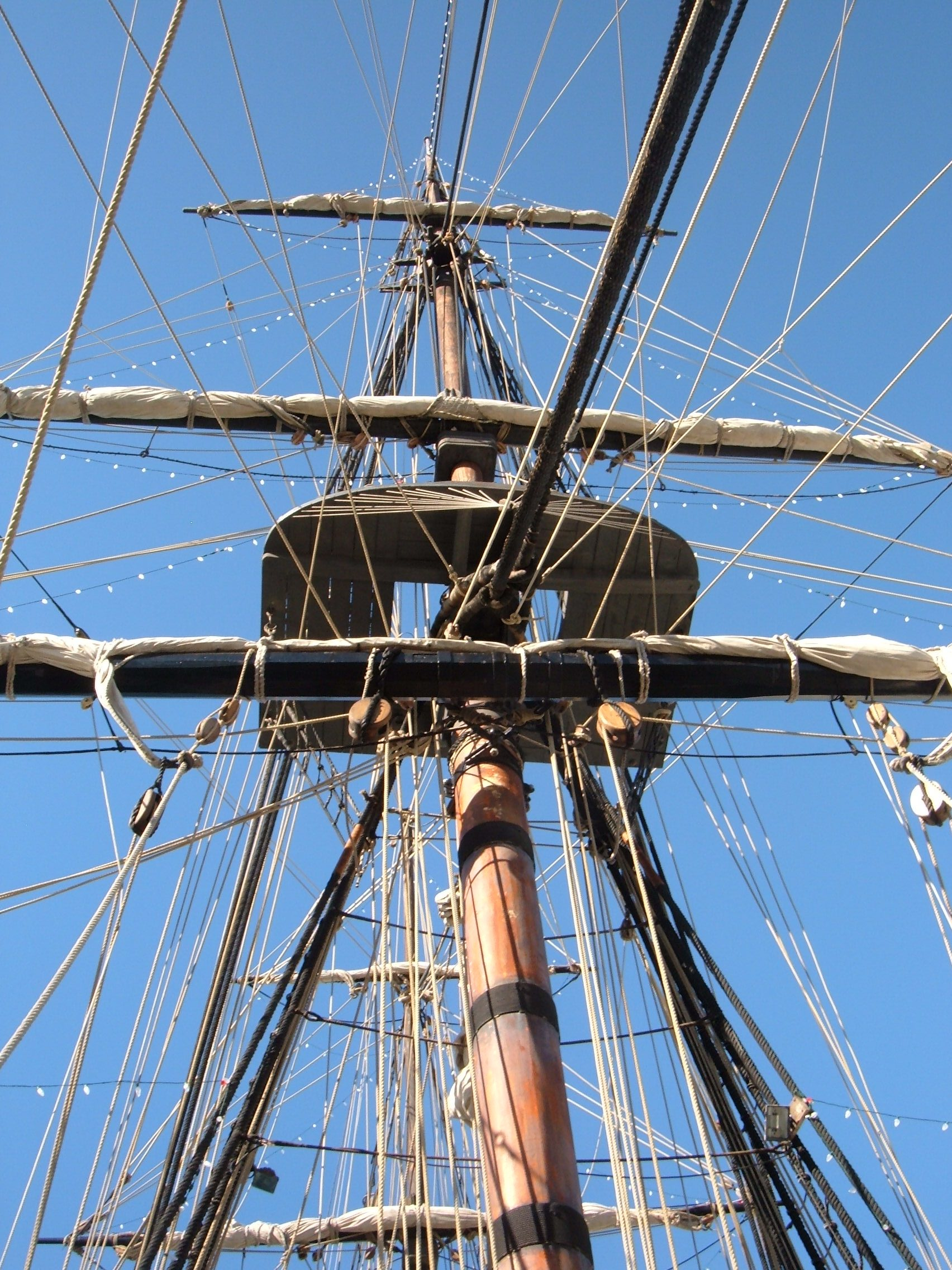 One of the masts of the HMS Surprise at the Maritime Museum of San Diego.